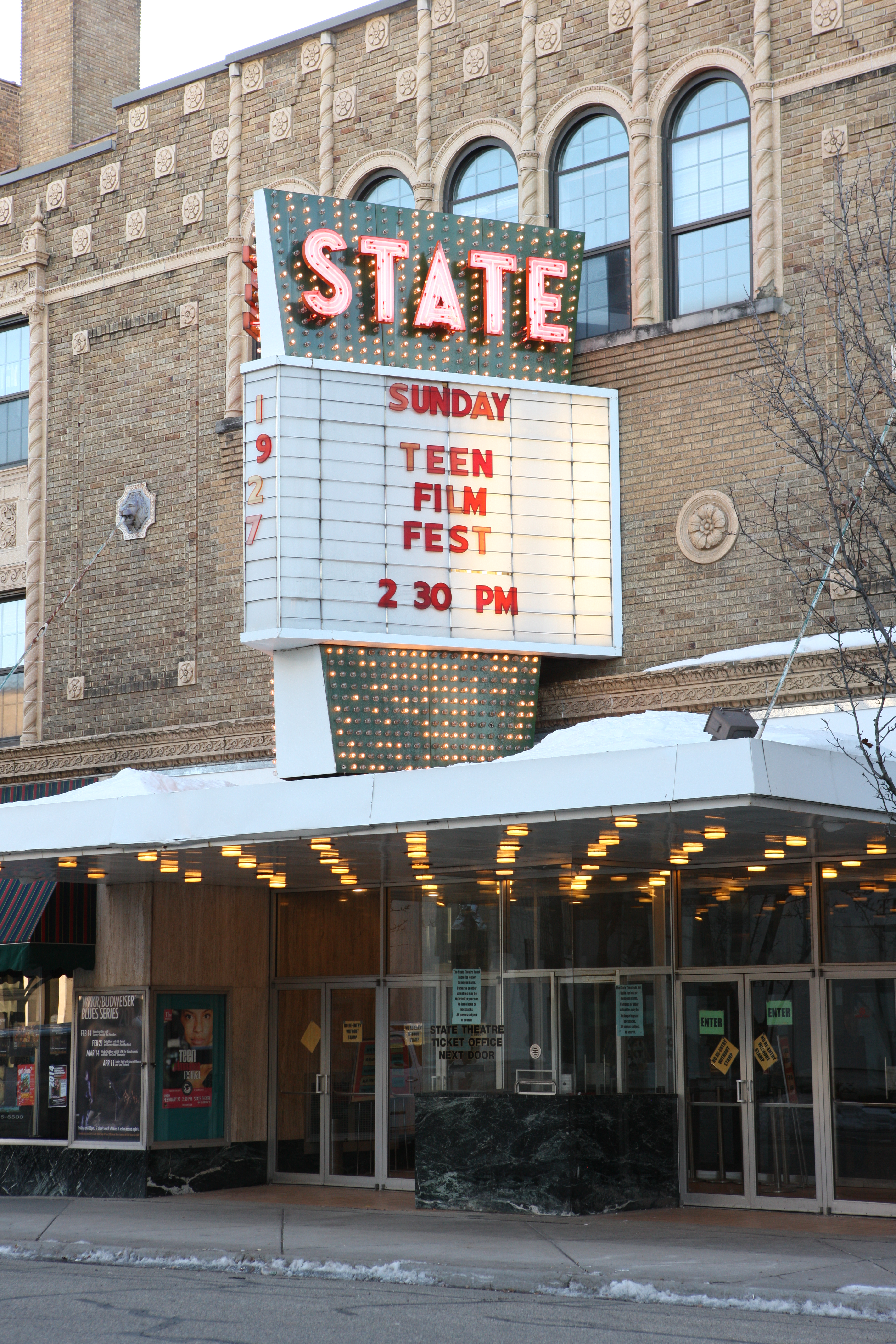 23February2014 Kalamazoo Public Library Teen Filmmaker Festival at the State Theater